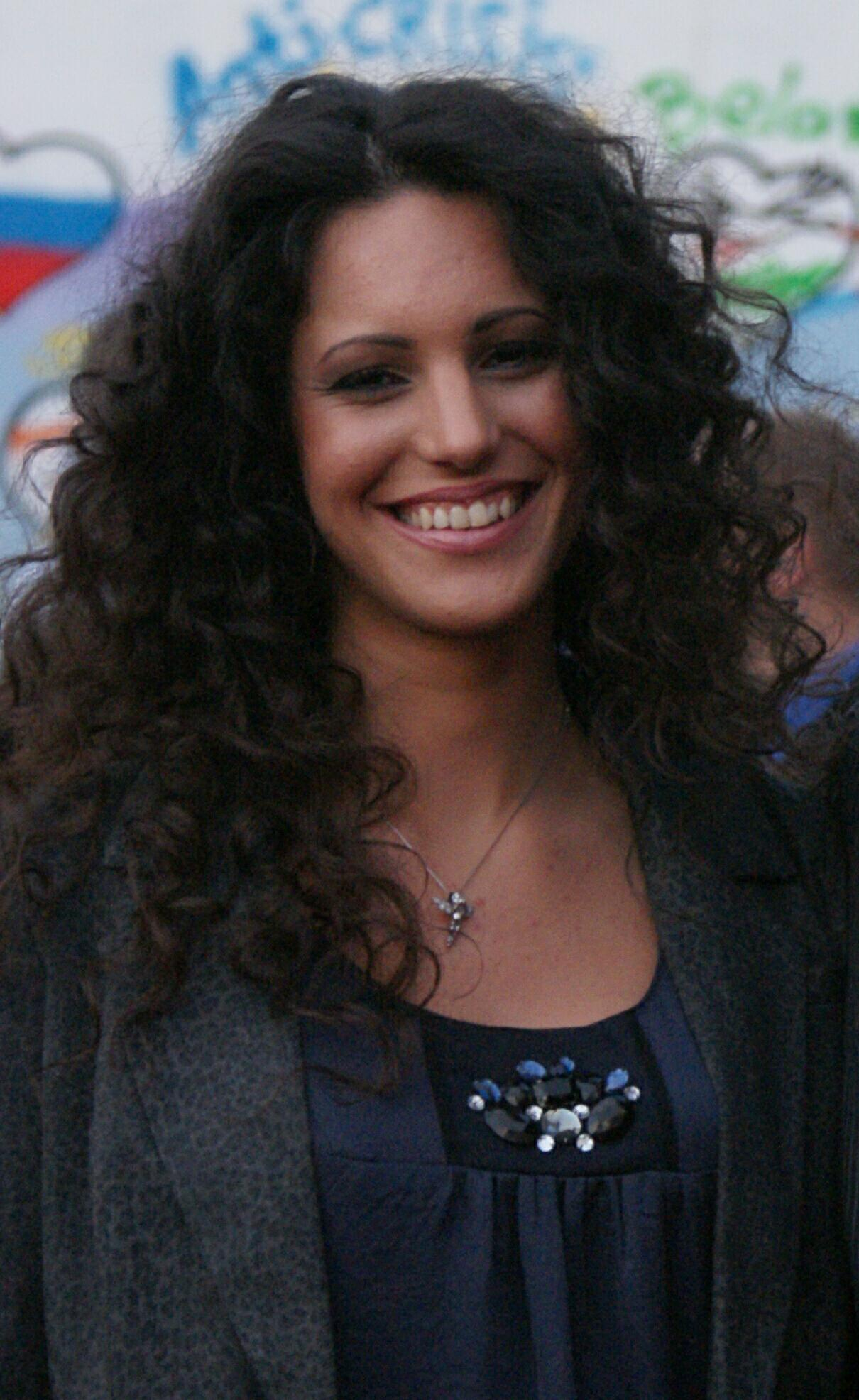 Andrea Demirović in Moscow, 2009